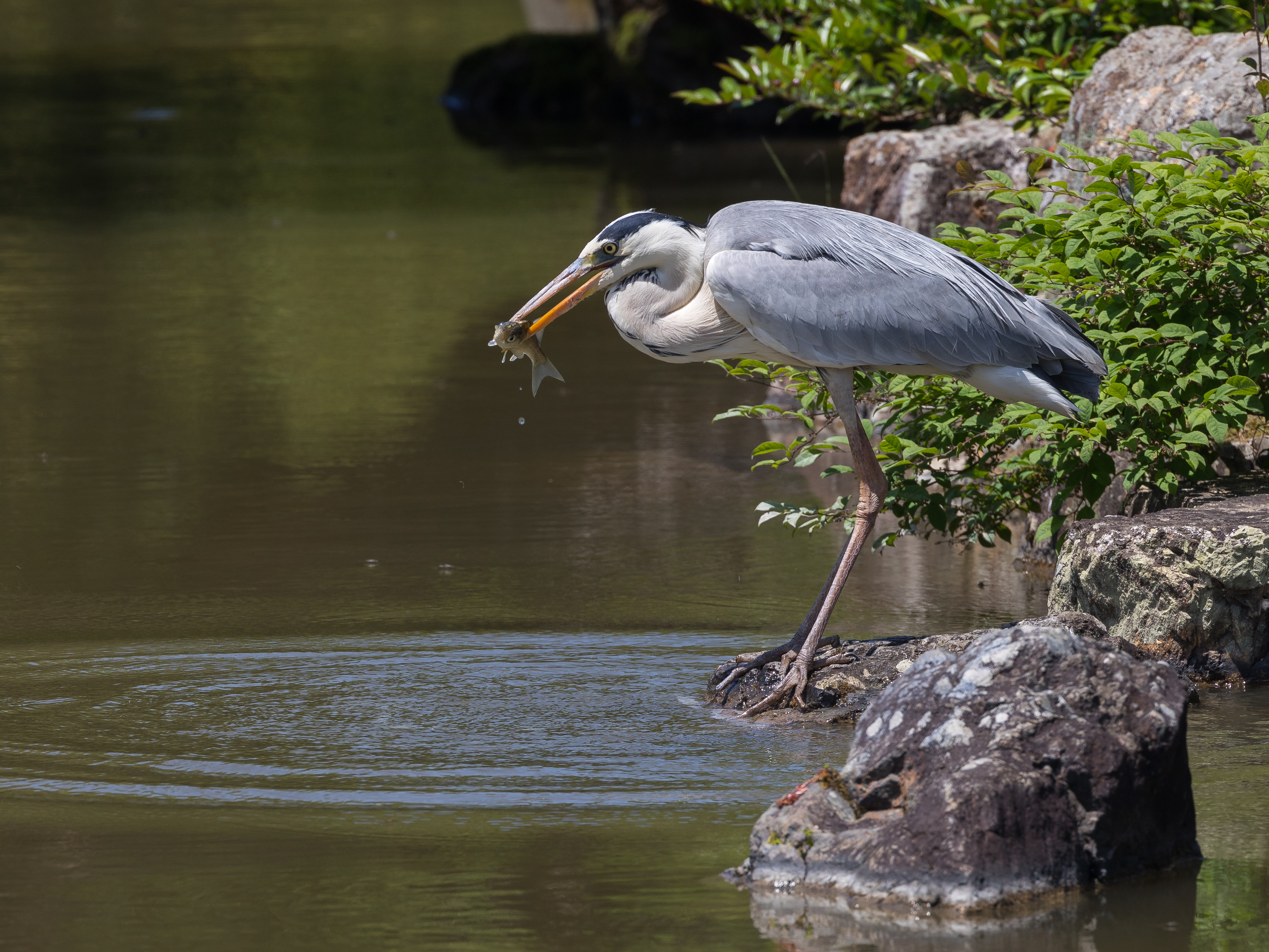 Ardea cinerea (Grey heron) eating fish in the park of Kinkaku-ji, Kyoto, Japan.